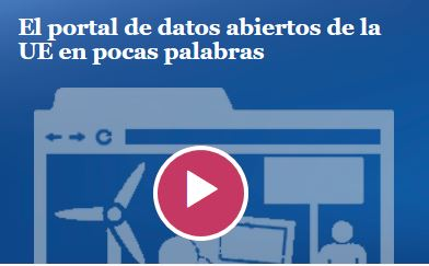 Screenshot from EUODP